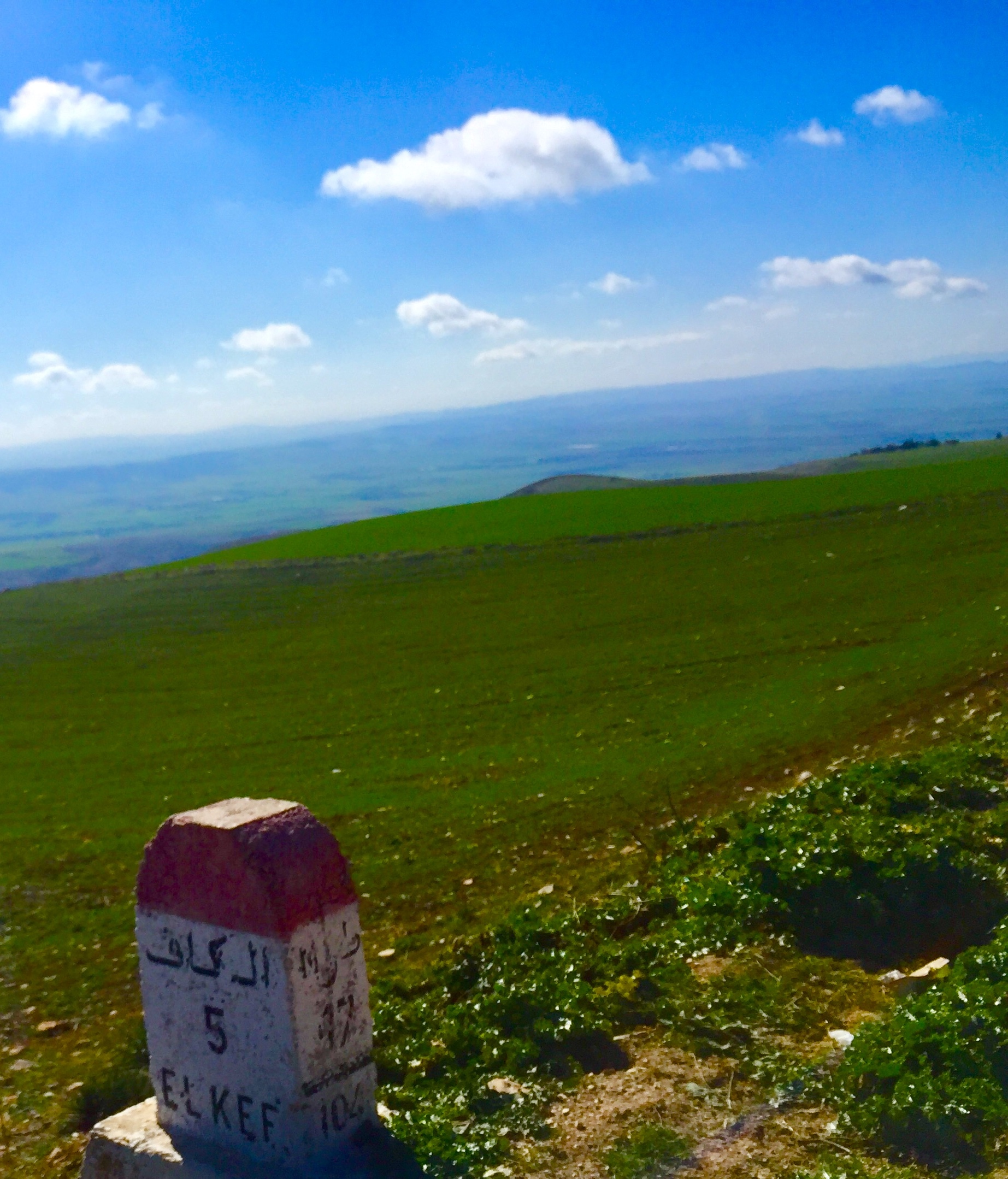 This is an image with the theme "Africa on the Move or Transport" from: Tunisia